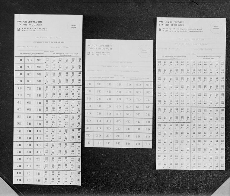 The Finnish government decided in October 1940 that grain and grain products would be regulated. Bread cards were distributed according to households.